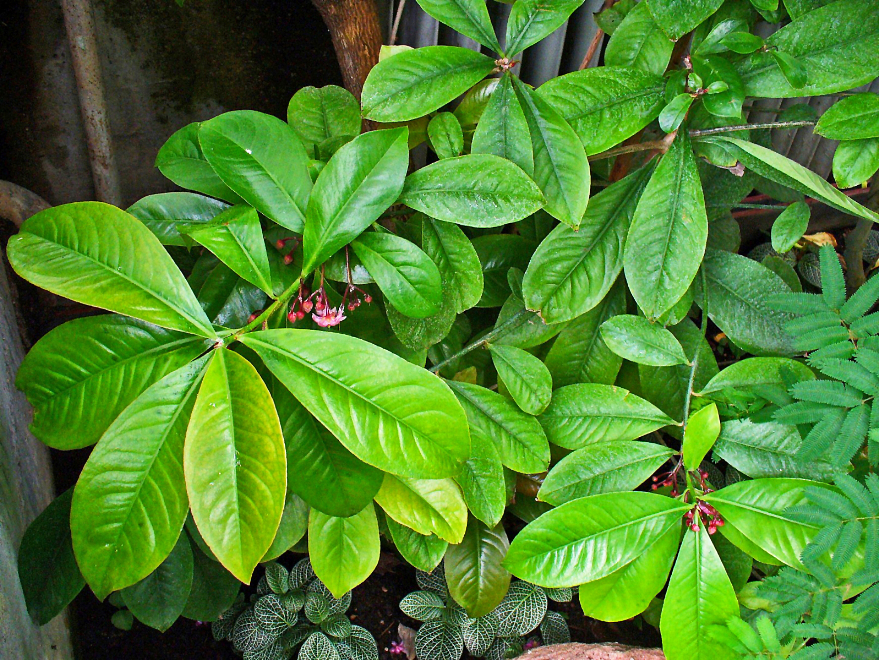 Ardisia wallichii, Primulaeae, habitus; Botanical Garden KIT, Karlsruhe, Germany.